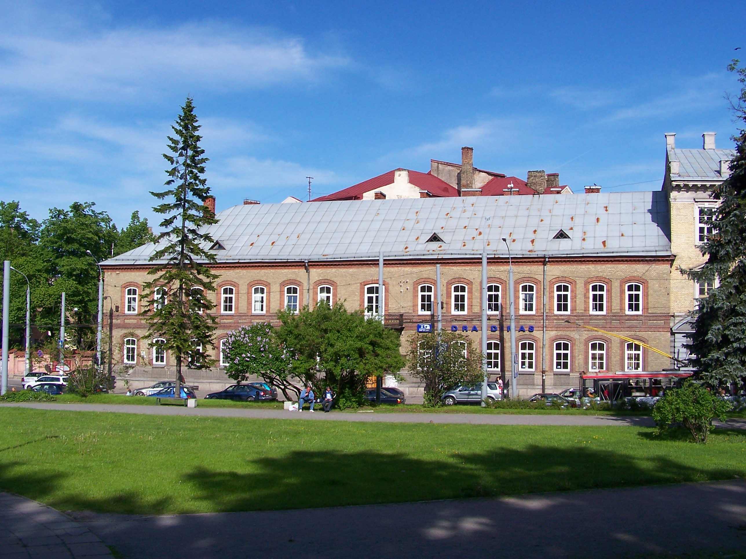 Jeszywa Talmud Tora in Vilnius.